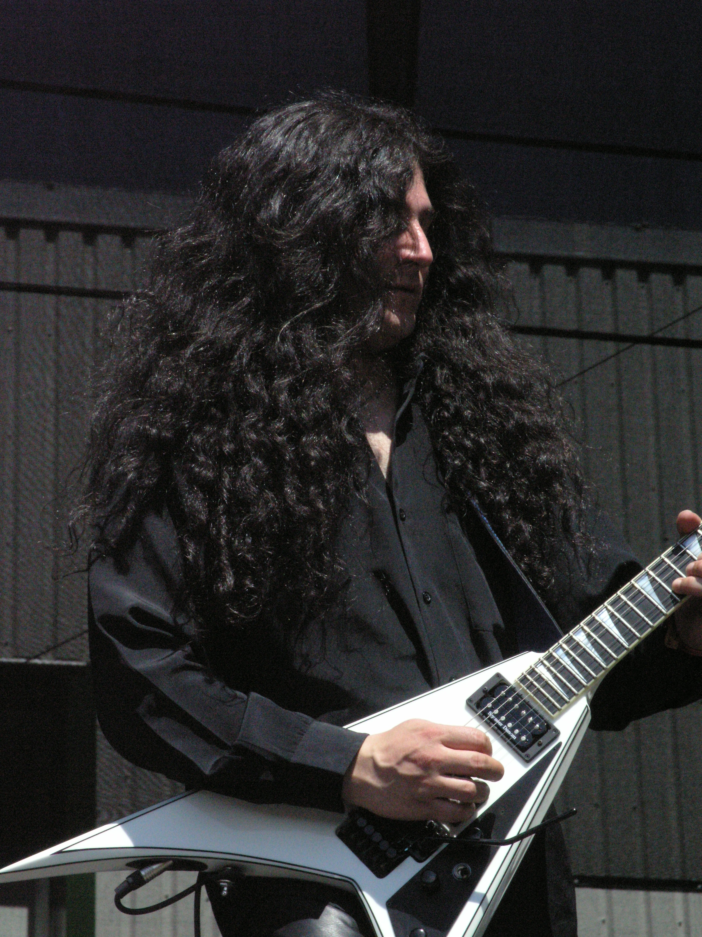 Hanny Mohamed from Black Majesty during Masters of Rock 2007 festival